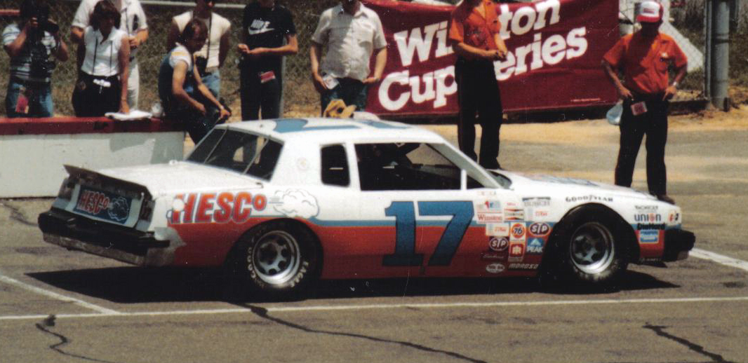 The Roger Hamby owned Hesco Exhaust Pontiac of Sterling Marlin finished 29th in the 1983 Van Scoy 500.